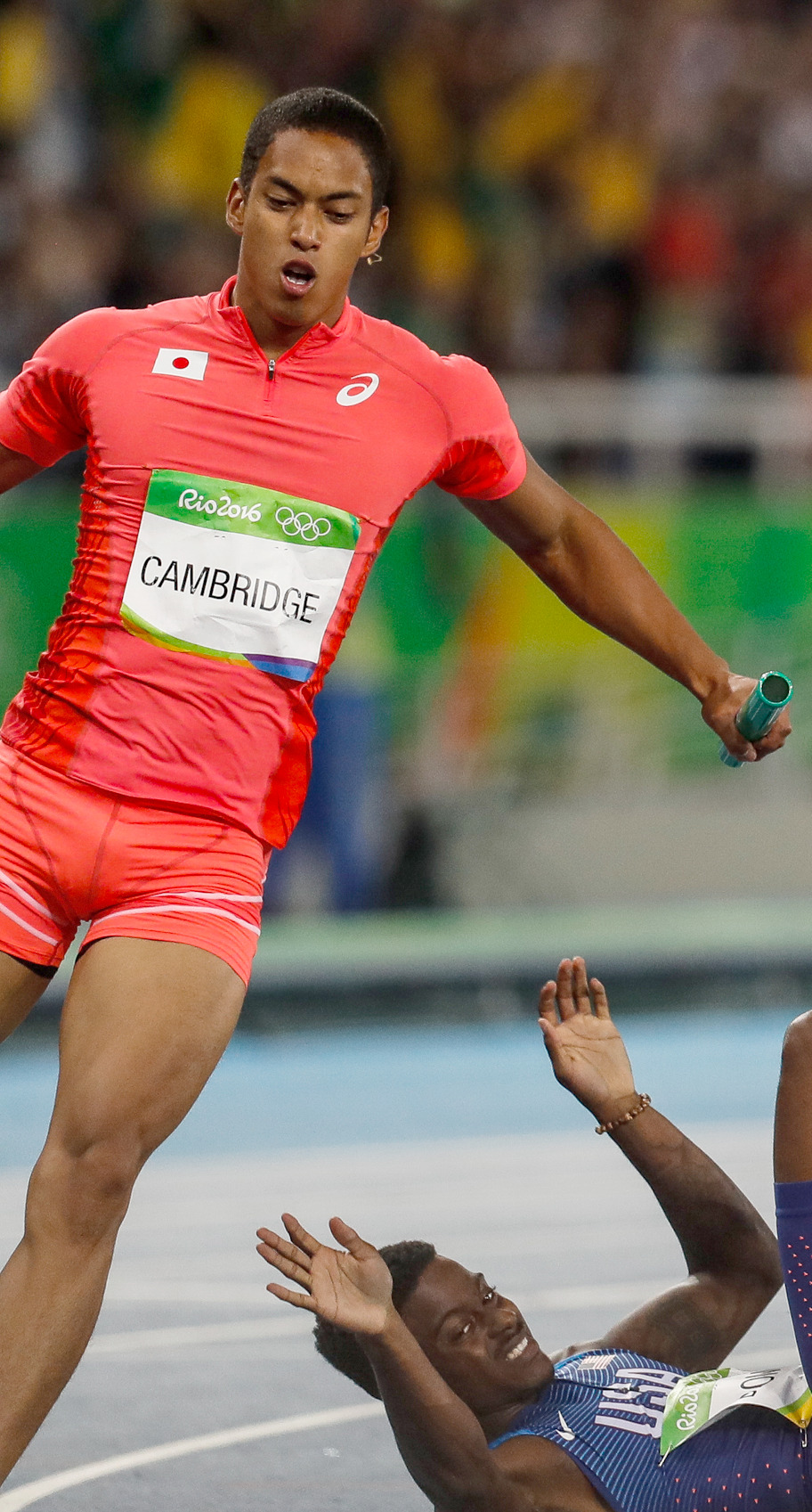 Rio de Janeiro - Usain Bolt ganha terceiro ouro nos Jogos Rio 2016 ao vencer o revezamento 4 x 100m com Asafa Powell, Yohan Blake e Nickel Ashmeade no Estádio Olímpico (Fernando Frazão/Agência Brasil)